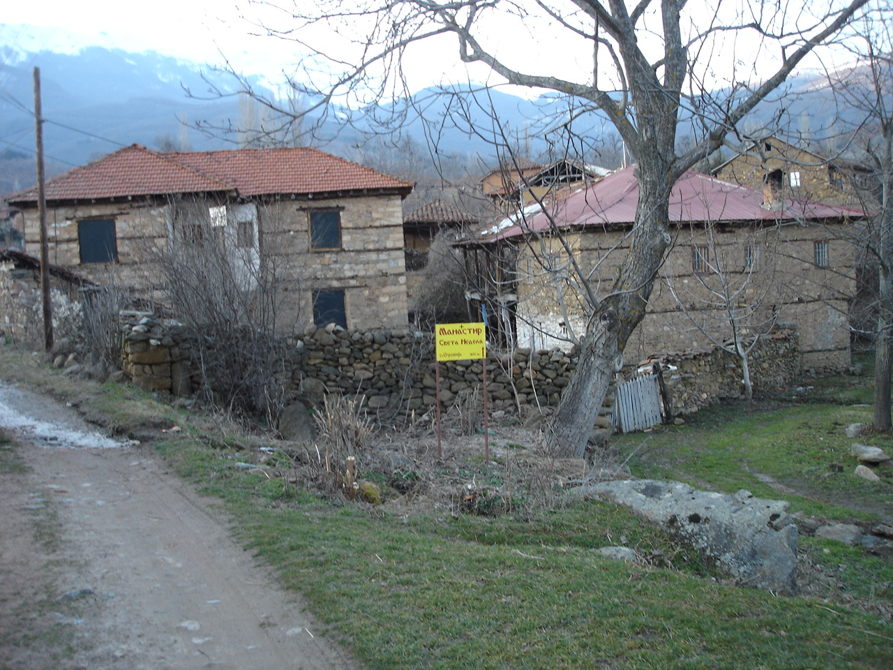 village of Strovija in Dolneni Municipality, near Prilep, Macedonia